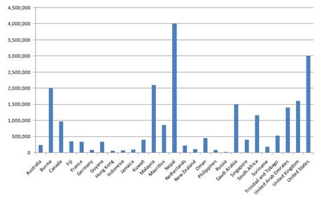 A bar chart showing the distribution of Overseas Indians